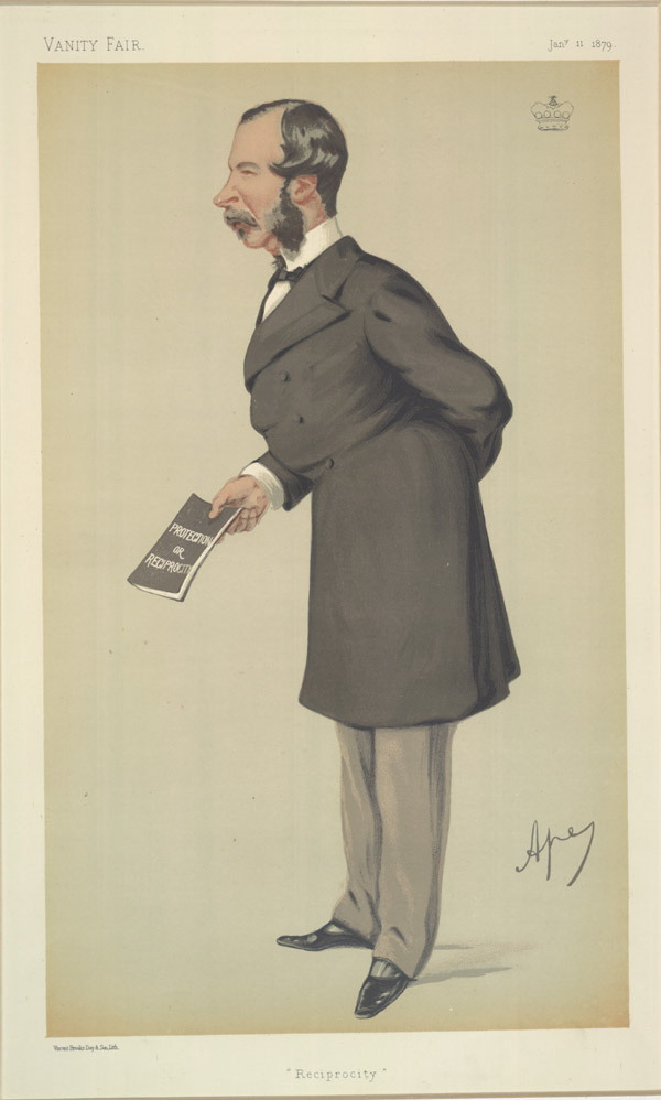 Caricature of Lord Bateman. Caption read "Reciprocity".